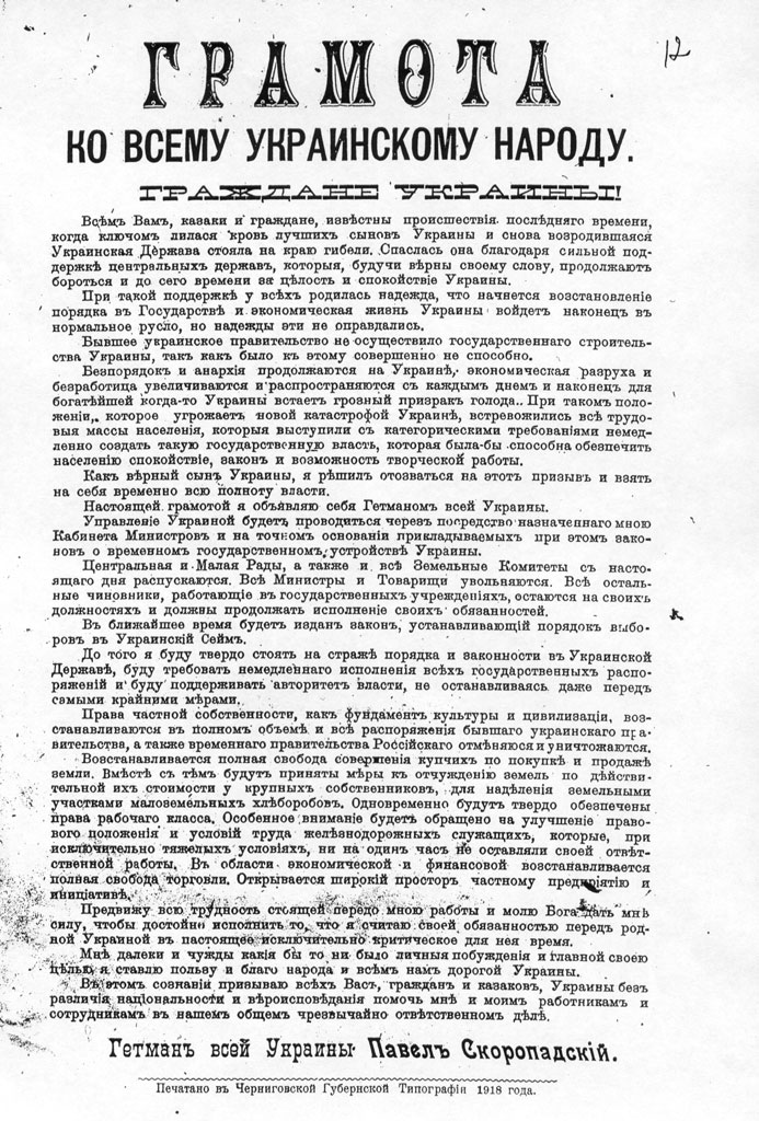 Грамота ко всему украинскому народу, 29 апреля 1918.